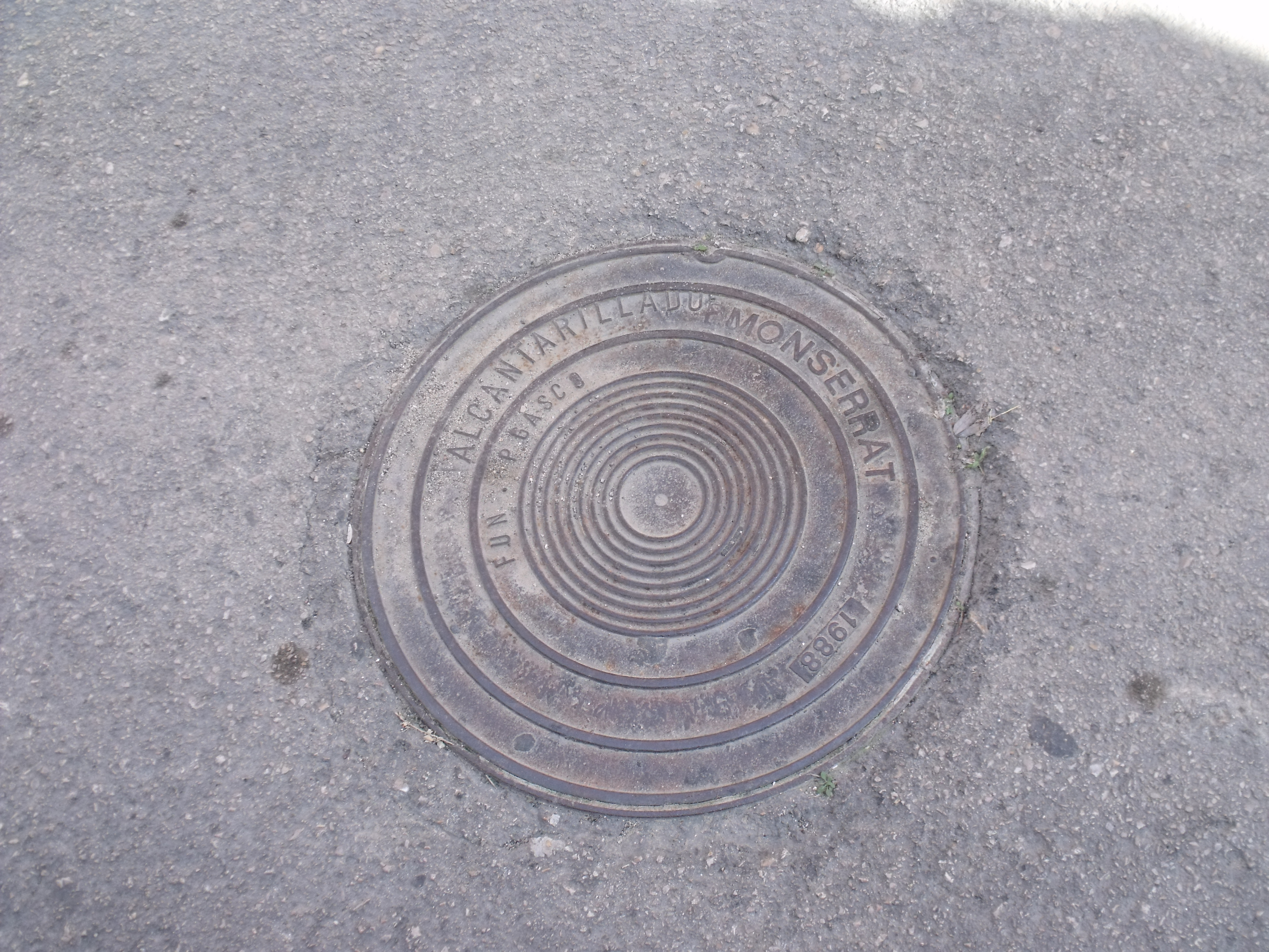 Manhole cover for a sanitary sewer access in Montserrat, Spain.